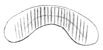 Drawing of the jaw of Amphidromus porcellanus.